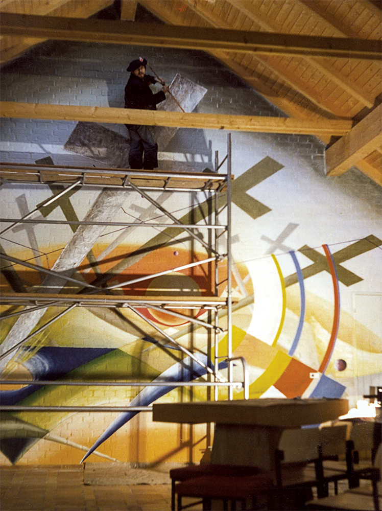 Lubo Kristek creating Transcendental Composition between Suffering and Hope in Penzing